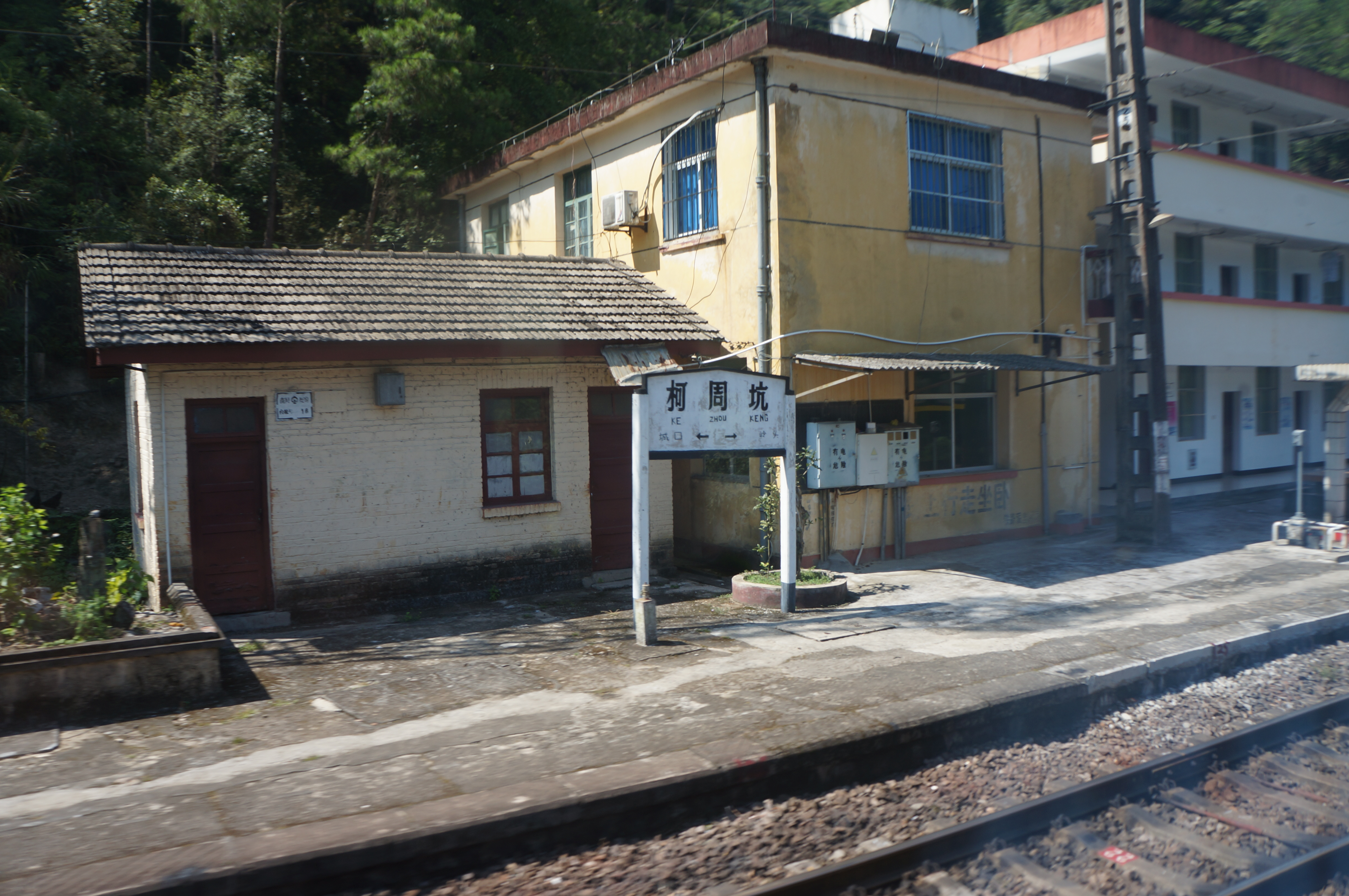 Kho Chiu Khi (O Chau Hang in Cantonese?). Next Station, Nia Thau